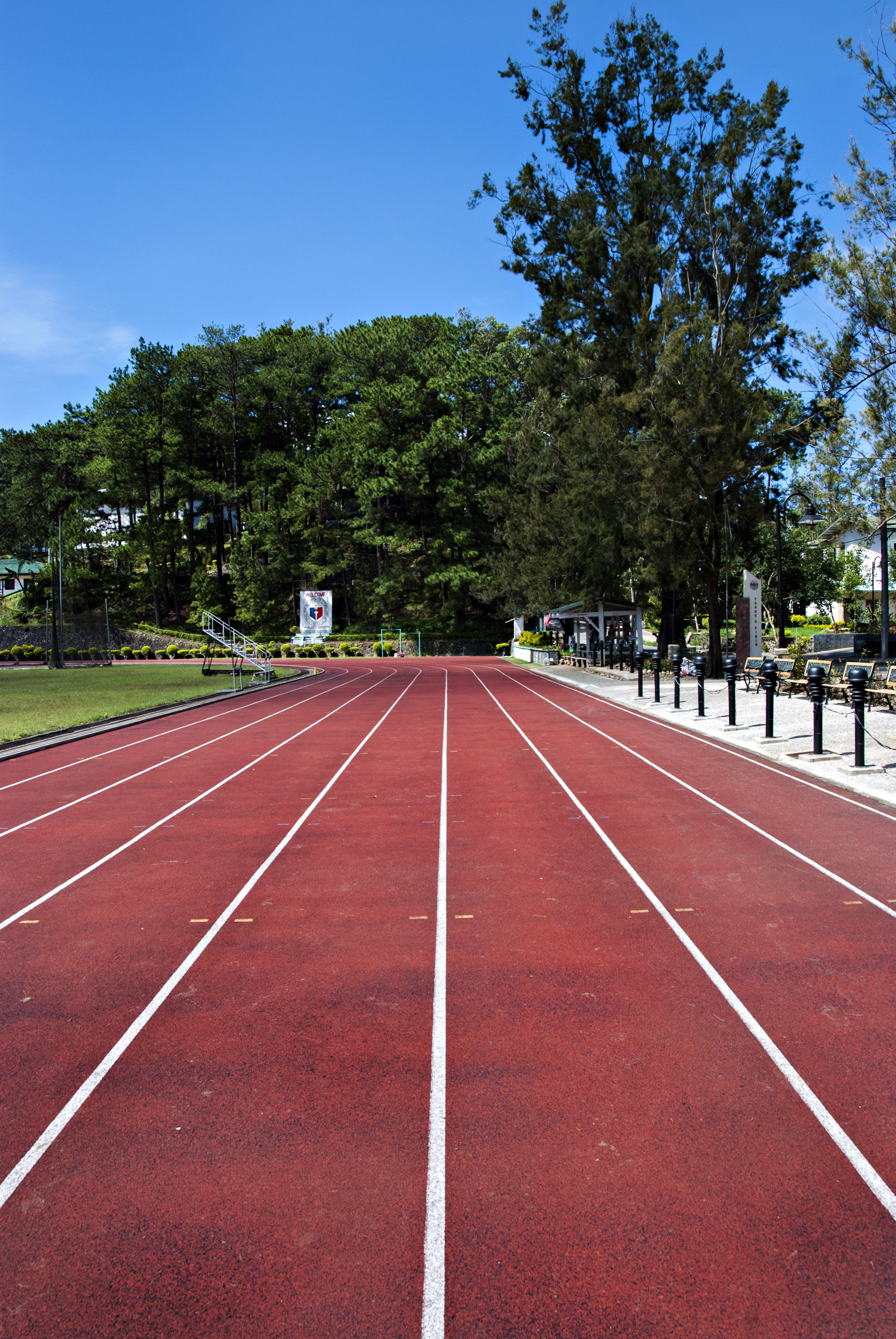 Teacher's Camp is a training center for teachers in the Philippines. It is located in Baguio City, Philippines